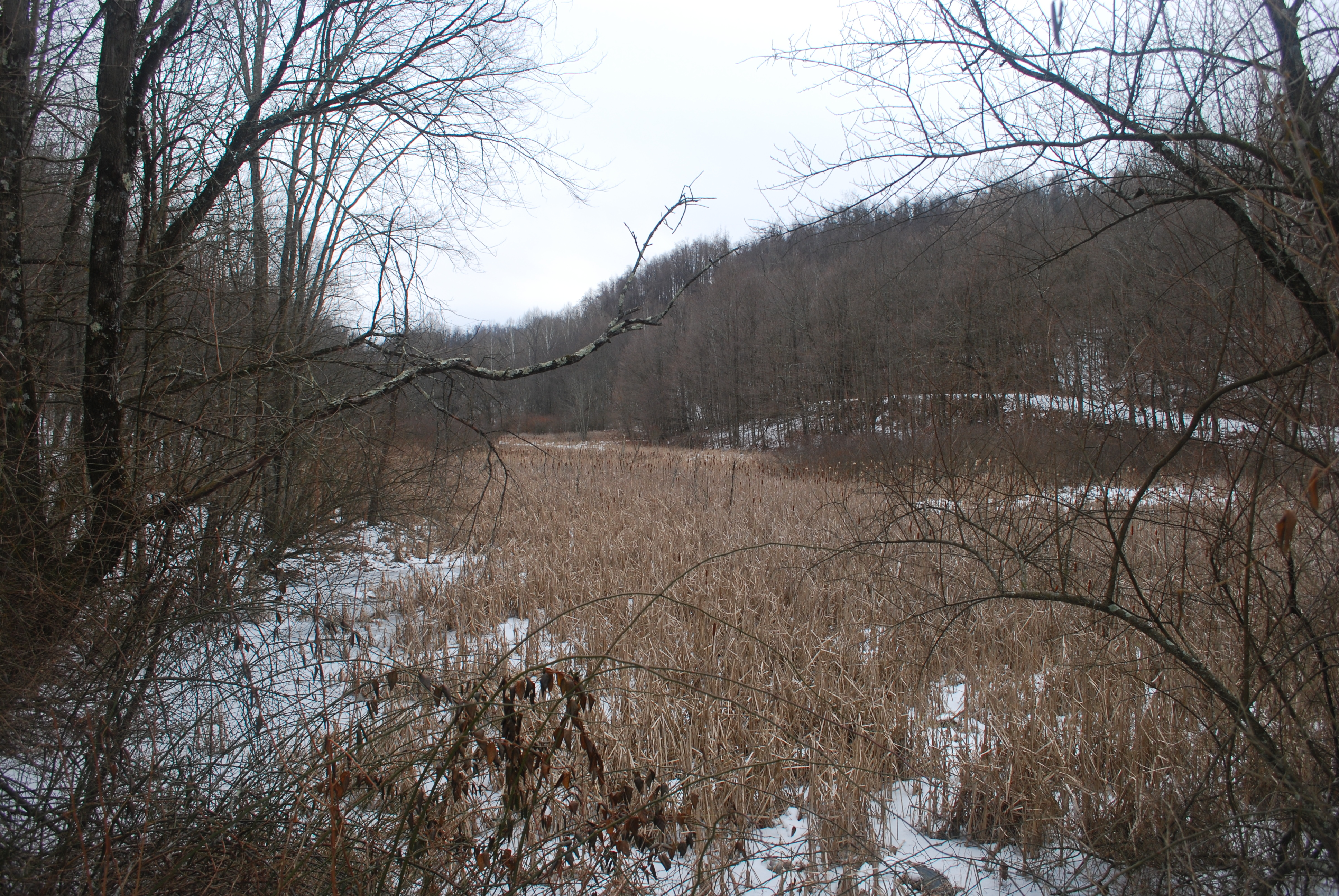 Wetlands in winter at Center Branch Wildlife Management Area.